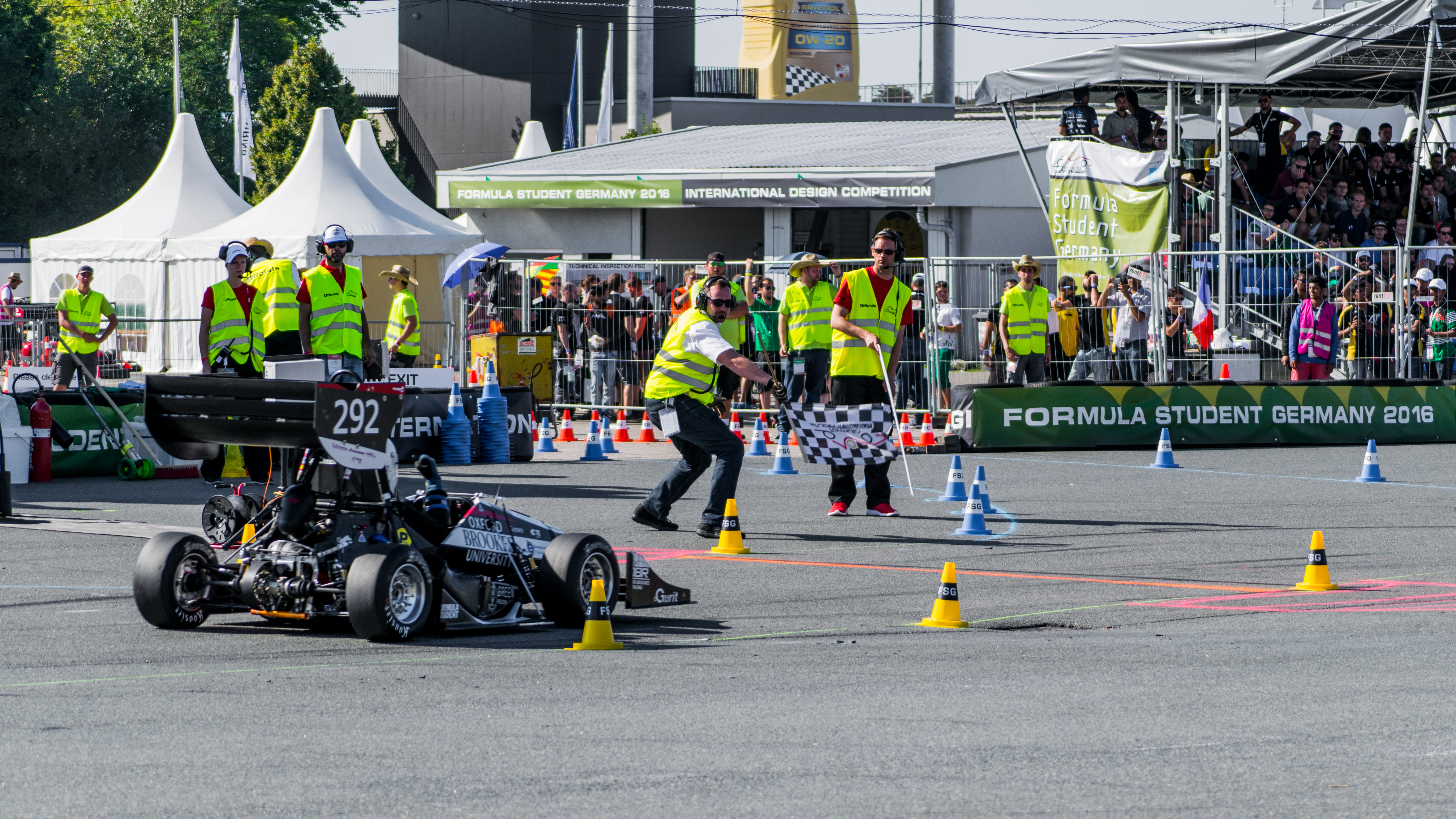 Photo from Formula Student Germany E.V.